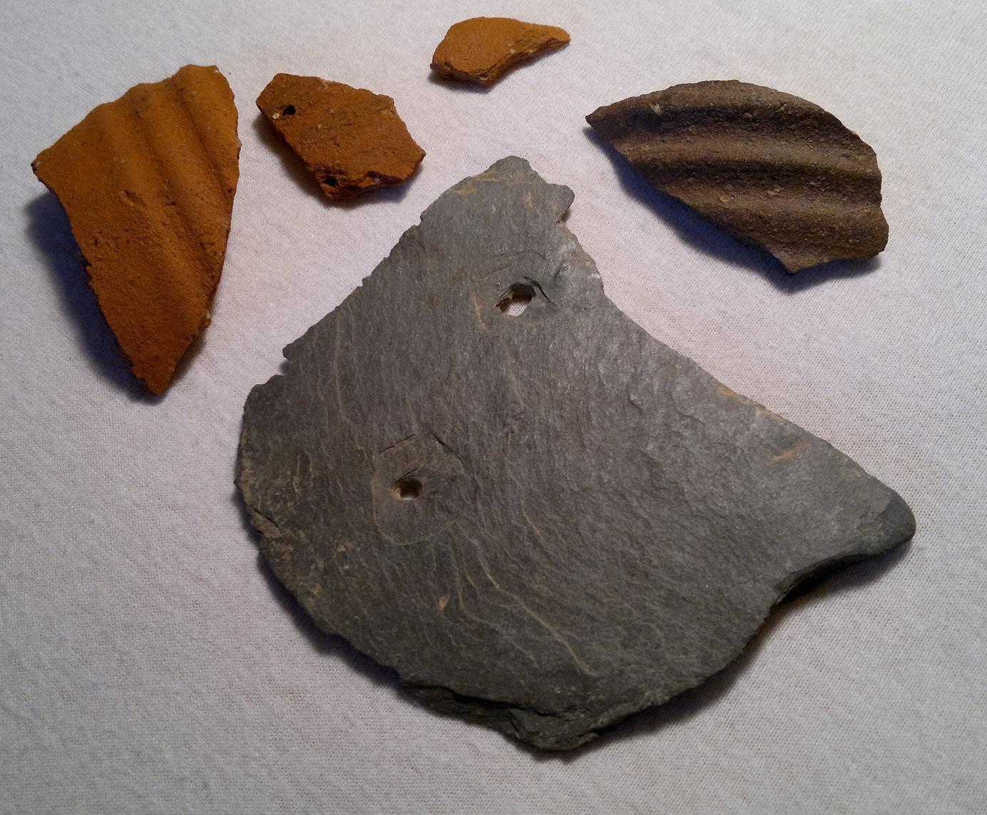 Finds at the medieval motte-and-bailey in Laudert/Germany